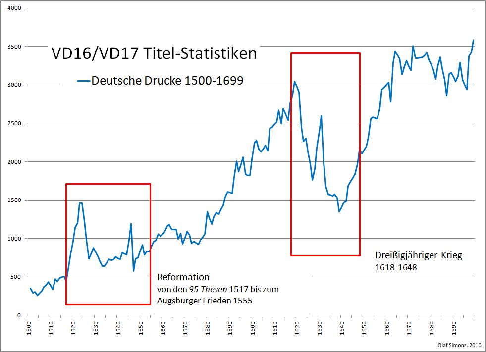 German VD 16 and VD 17 title statistics - mirroring maxor political events